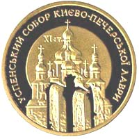 Coin of Ukraine